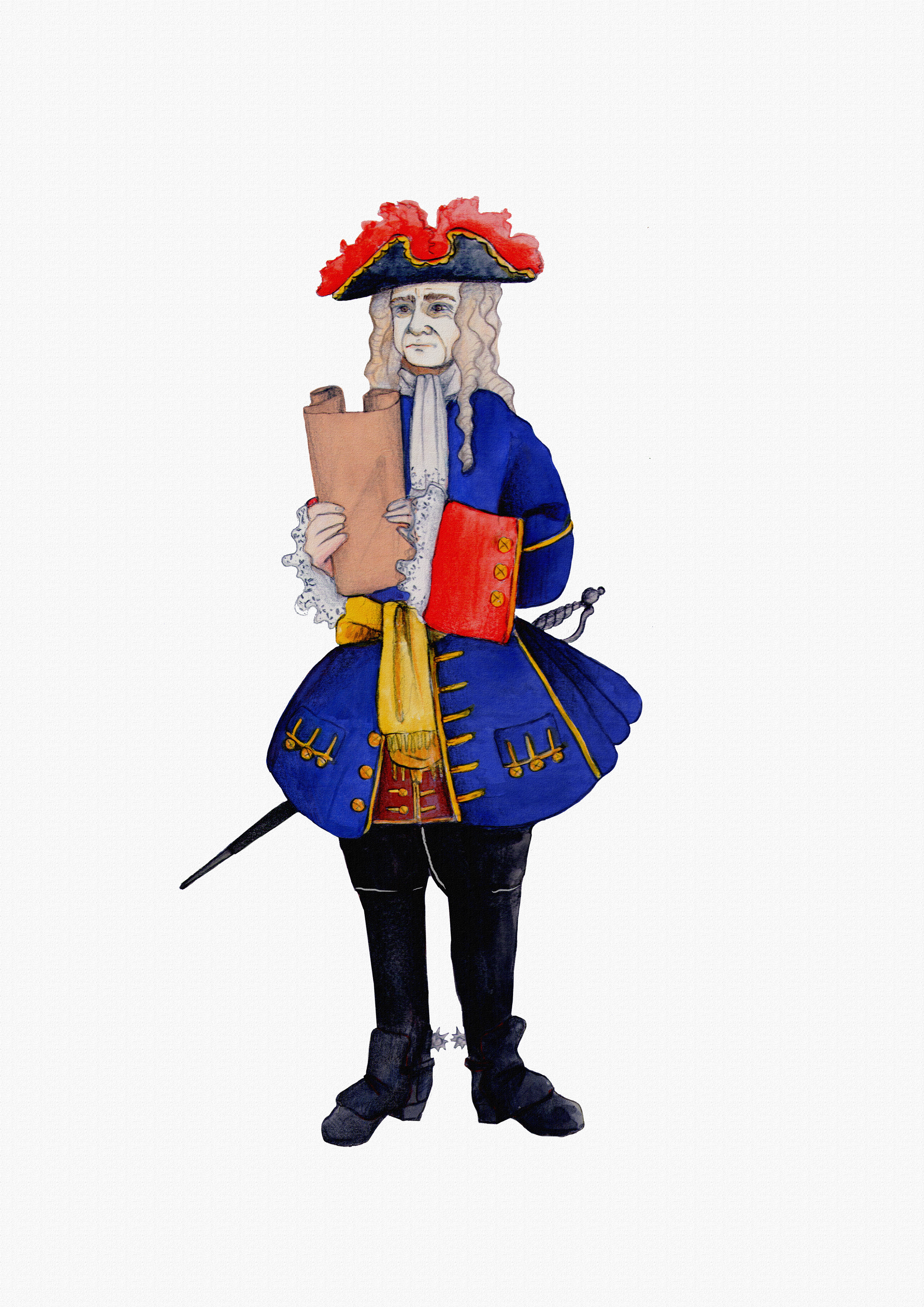 Recreating drawning of Marshal-lieutenant Antoni Villarroel and Peláez, chief of the Catalan army during the campaing 1713-1714. He has been depicted with a three-cornered hat topped with red plume and with white makeup, typical features of high commanding officers at this age, with dress coat and with riding boots. Expecting the campaing of 1713-1714 Villarroel commissioned a suit with quality clothes: a dress coat of blue cloth material with deep red cuff, which them were the colour of his regiment. We know that because of the documents of Crown of Aragon Archive: "Pay to Francisco Sales the amount of 30 ll [= lliures] 7 s [= sous] 3 d [= diners] for buying two canas and two pams [= roughly 1 meter and 90 centimeters] of English blue cloth material at a cost of 1 lliura every cana, for one pam and a quarter of Dutch gransa at a price of 18 ll every cana, and for four pams of white loose cloth at 1 ll and 2 s every cana, all of that has been used for the full suit made for His Excellency General chief." (CAA. Generalitat. Deliberacions i Dietaris G 126 B, 26th september 1713). Scanned drawning on cardboard: Illustration using mixed techniques of watercolor and watercolorable pencil. The illustration has been made with the scientific counseling from historian Francesc Xavier Hernàndez Cardona.